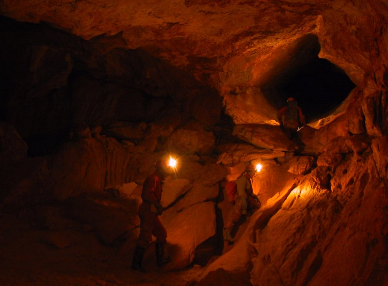 Dachstein-Mammuthöhle, selbst fotografiert, gemeinfrei This media shows the natural monument in Upper Austria with the ID nd614. (other)